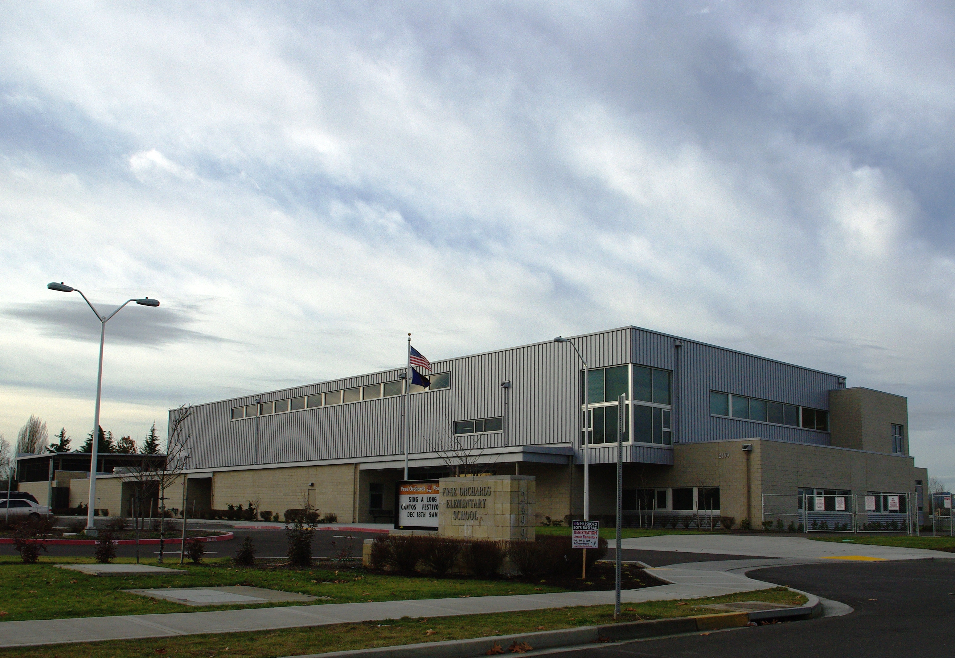 Free Orchards Elementary School in Cornelius, Oregon, part of the Hillsboro School District.